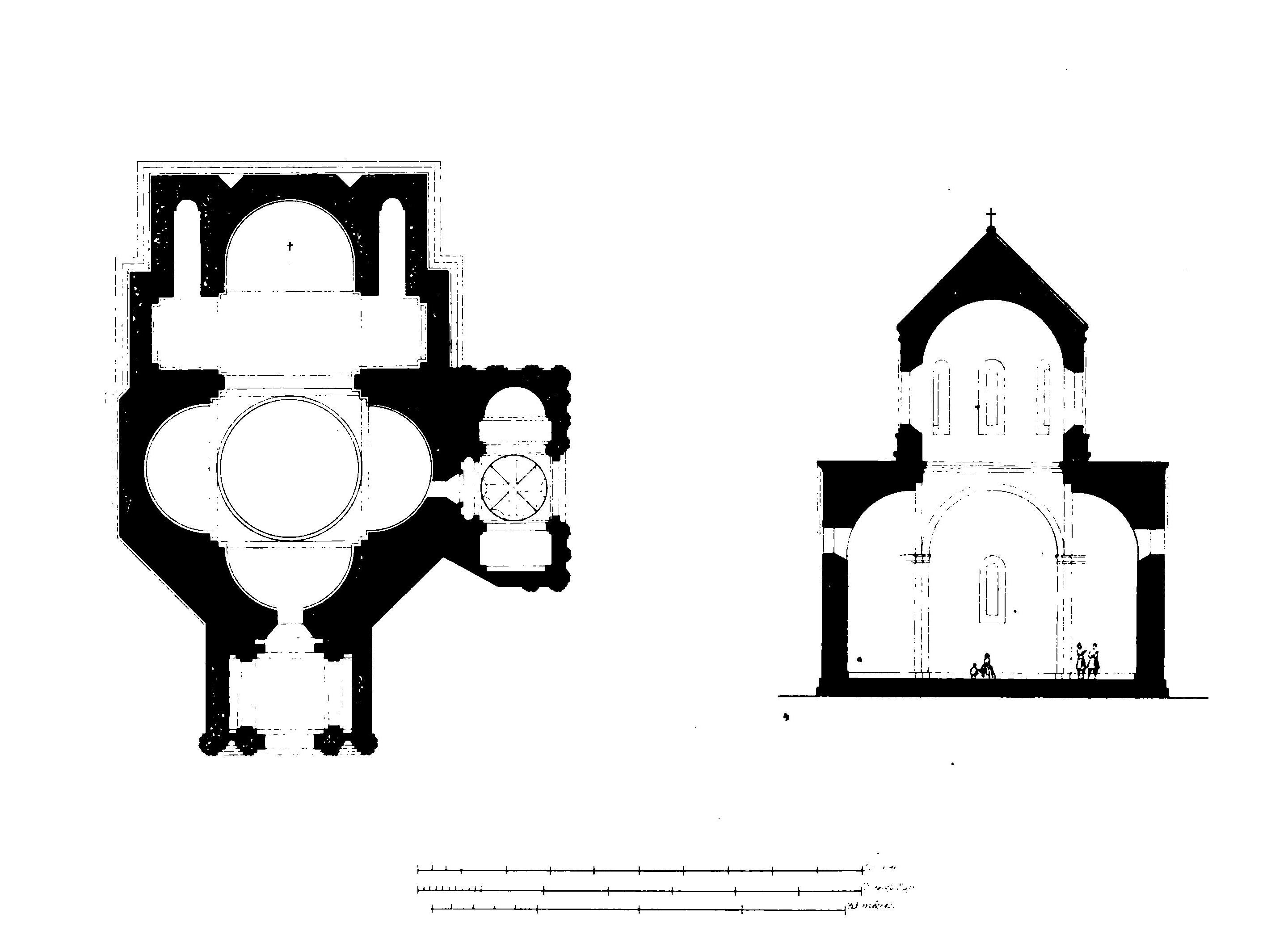 Manglisi Cathedral, an illustration from "Géorgie", in: Grimm, David Ivan (1864). Monuments d'architecture en Géorgie et en Arménie. St. Petersbourg: A. Beggrow.